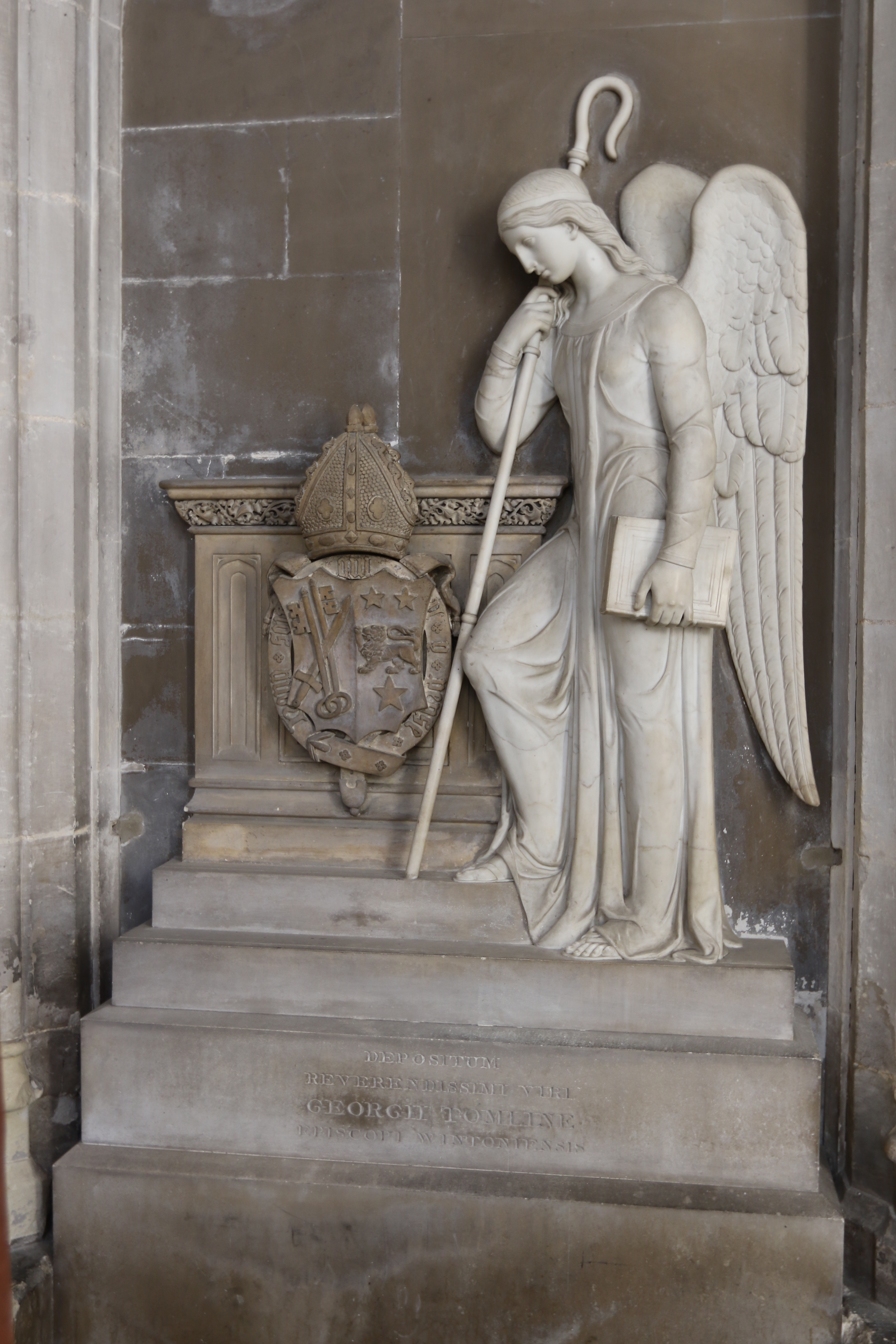 George Pretyman Tomline, Bishop of Winchester. Sculpture by Richard Westmacott the Younger